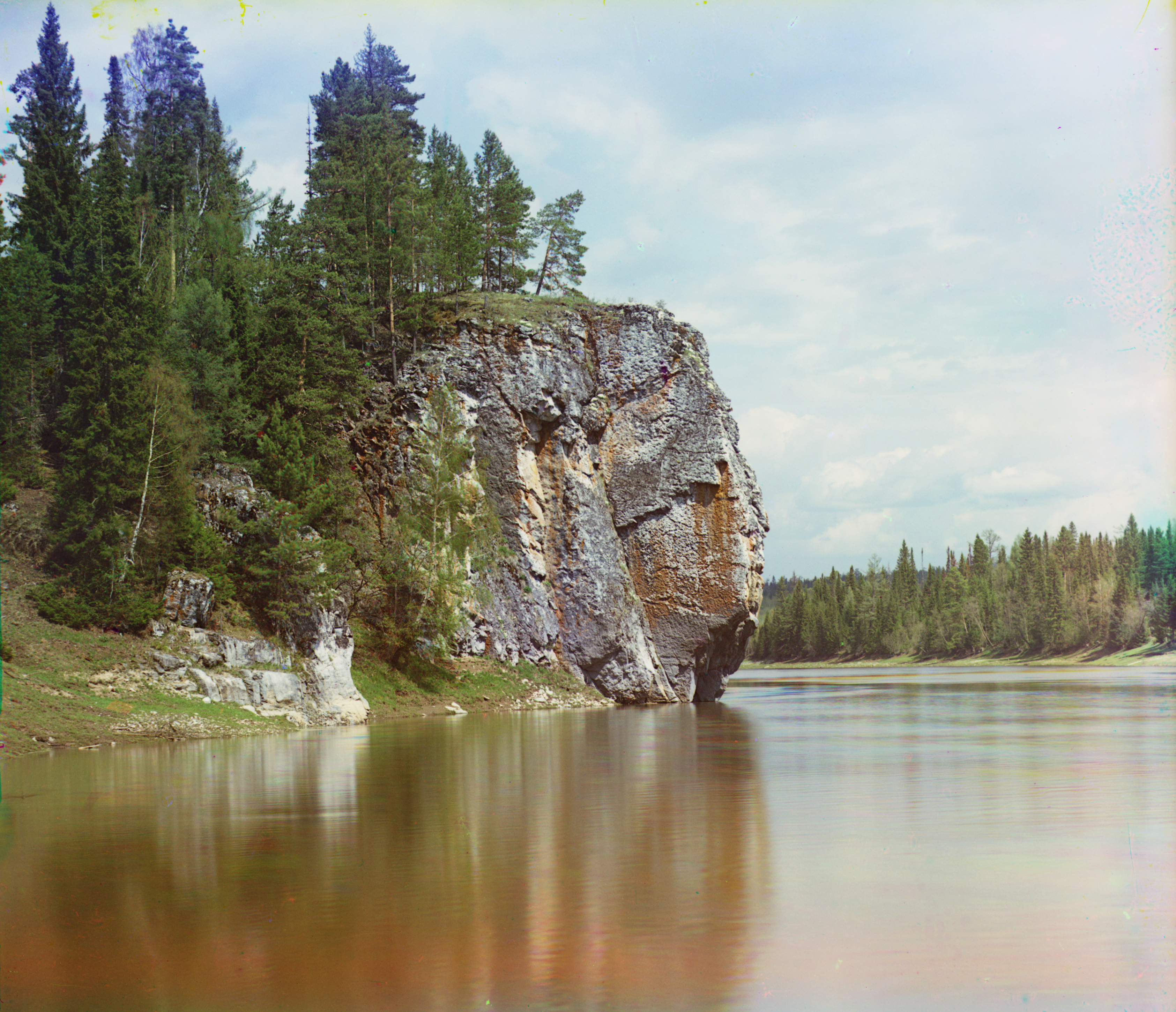 The Maksimovsky rock in the river Chusovaya in the Ural Mountains.